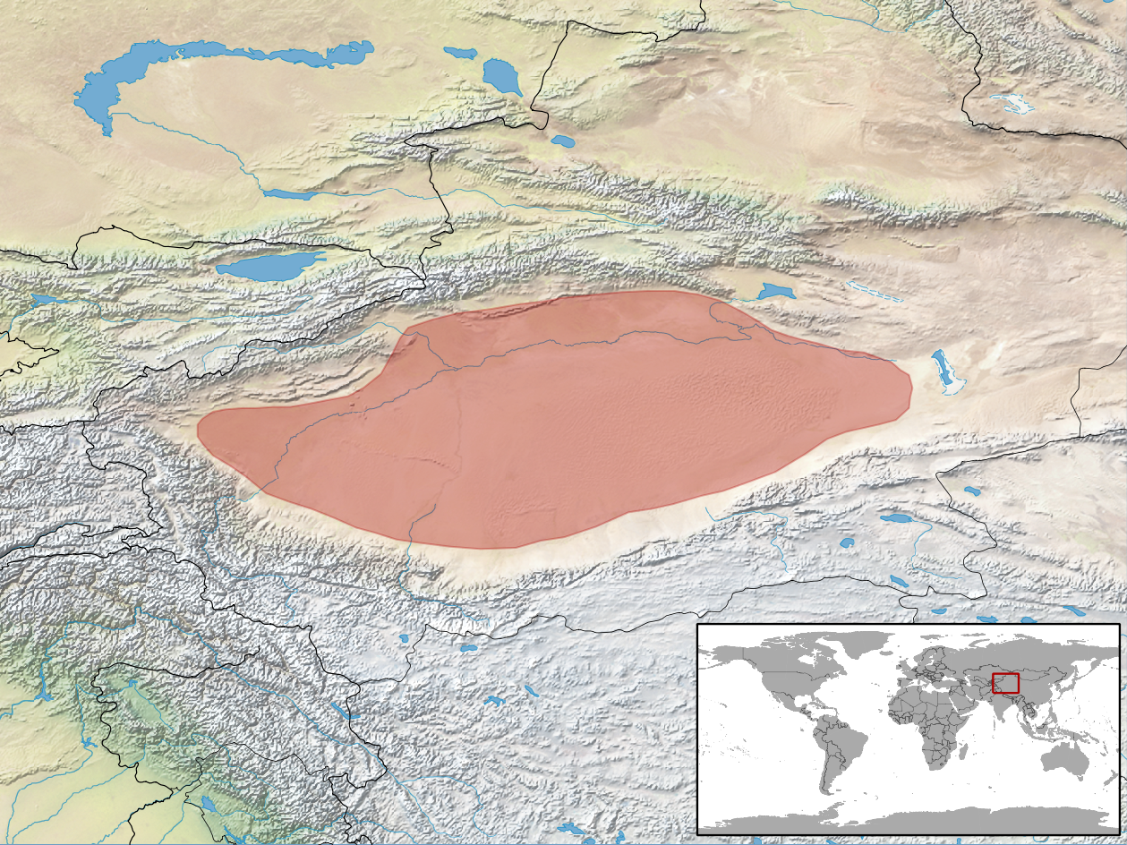 geographic distribution of Phrynocephalus axillaris (Native: China (Xinjiang))